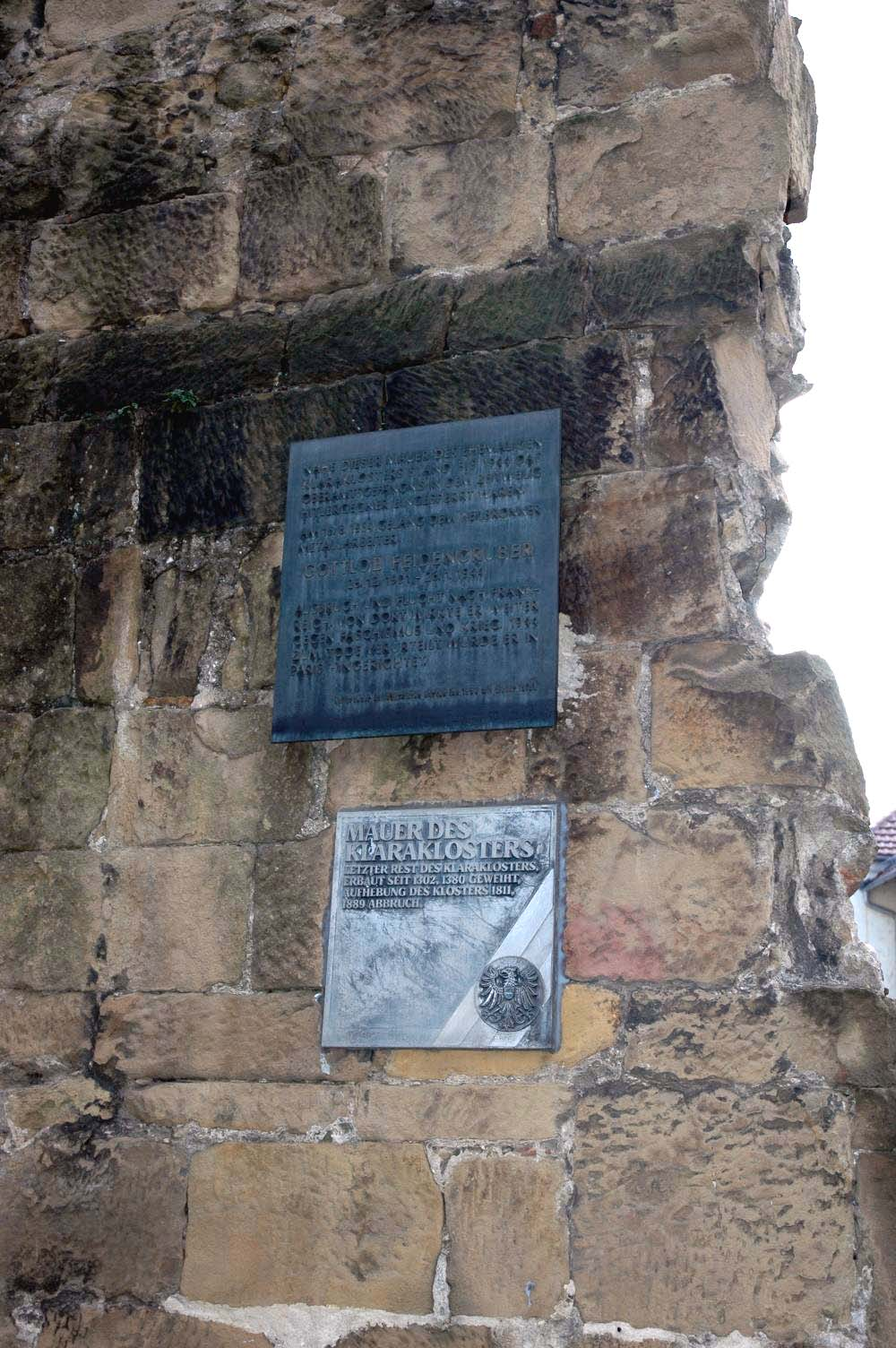 Remains of city wall and memorial for Gottlob Feidengruber in Heilbronn.